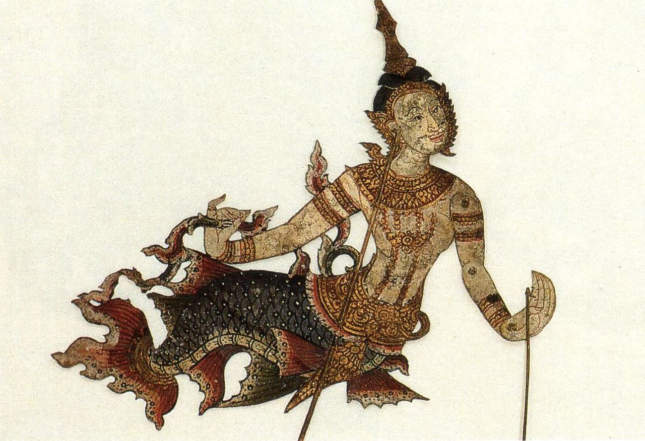 Nang yai, Suphannamatcha, daughter of Thotsakan